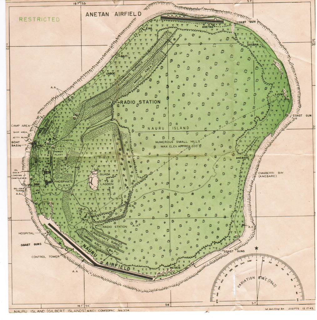 Allied Map of Nauru, Central Pacific Ocean, from World War II